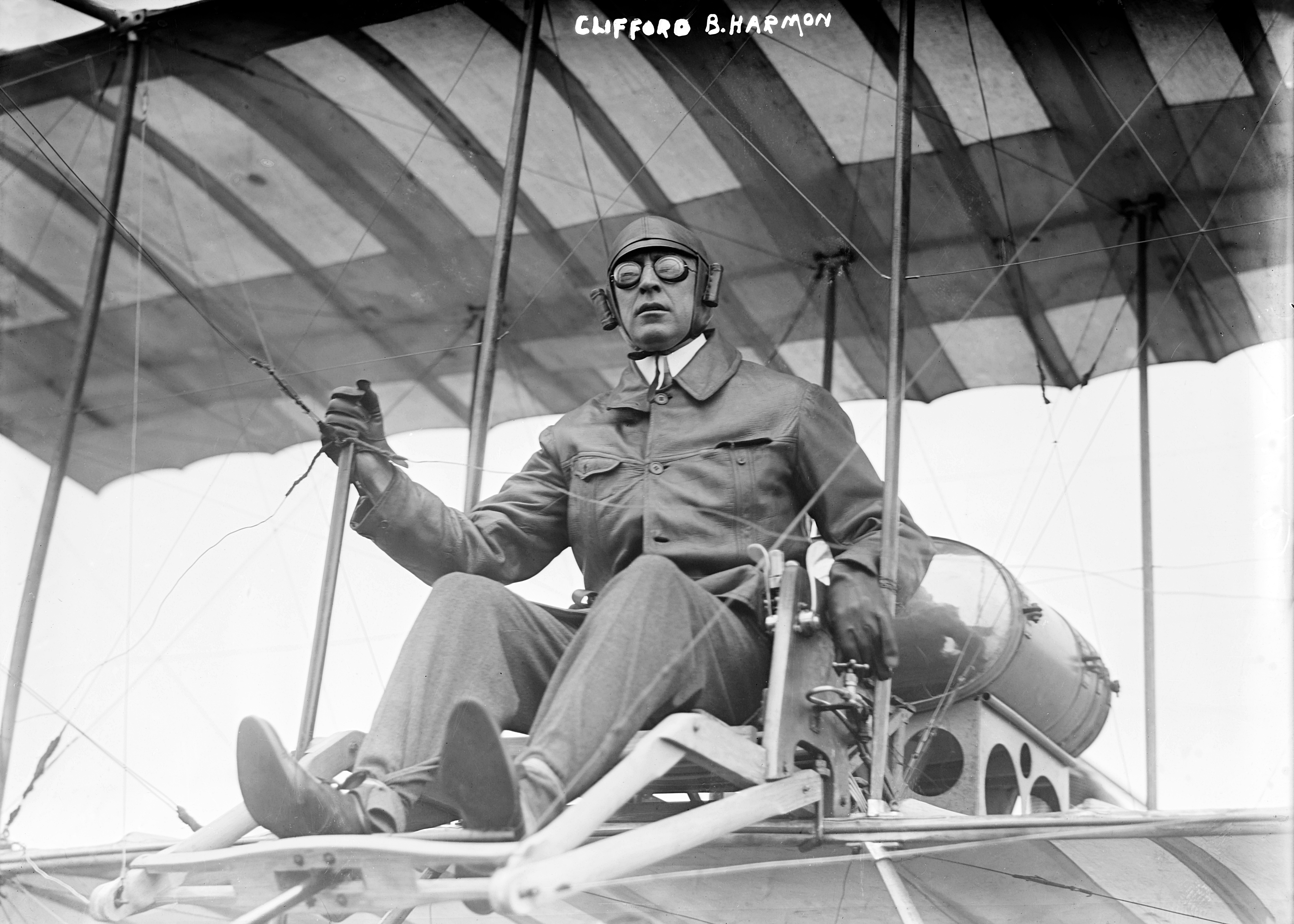 Clifford B. Harmon. Seated in airplane.